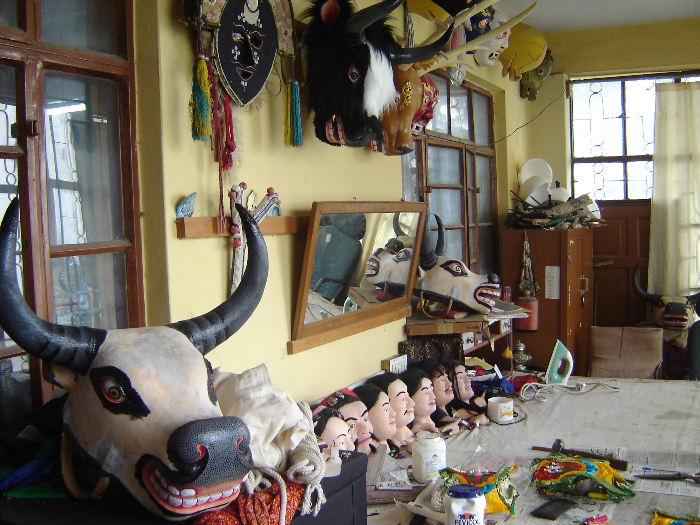 Workshop at the Tibetan Institute of Performing Arts in McLeodganj. A man was busy painting masks here. He didn't know Hindi or English but he let us take pictures of his office.